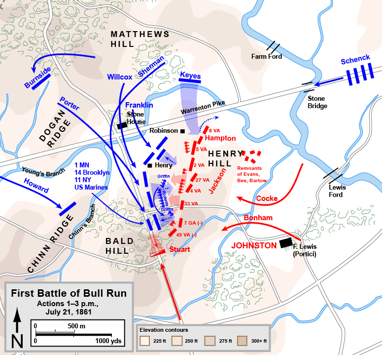 Map of First Battle of Bull Run (2pm, July 21, 1861 of the American Civil War. Drawn in Adobe Illustrator CS5 by Hal Jespersen. Graphic source file is available at